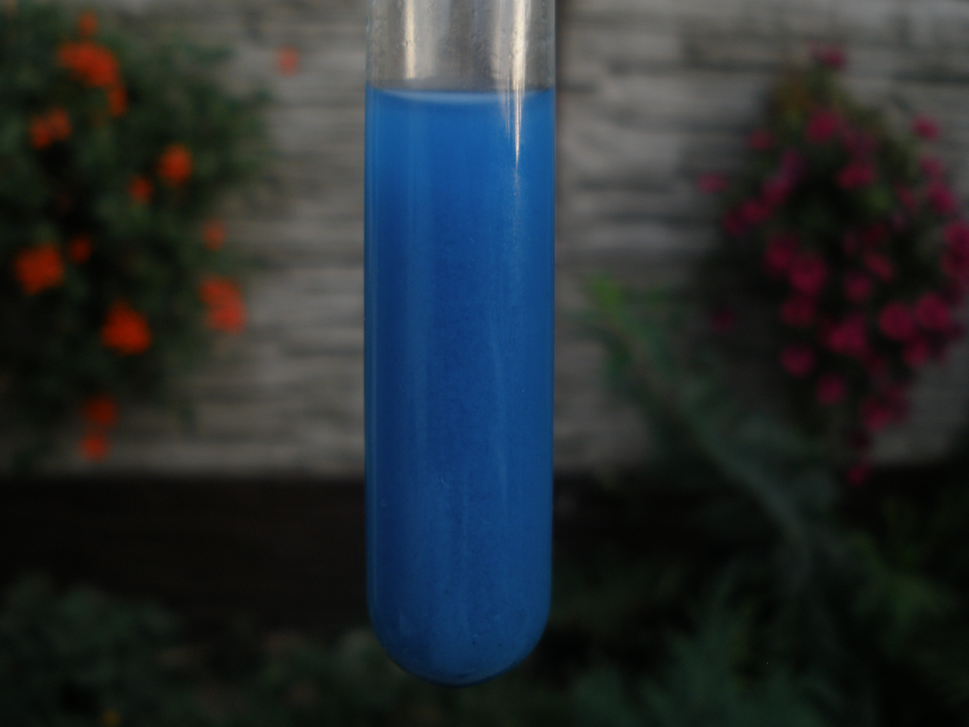 Copper(II) hydroxide